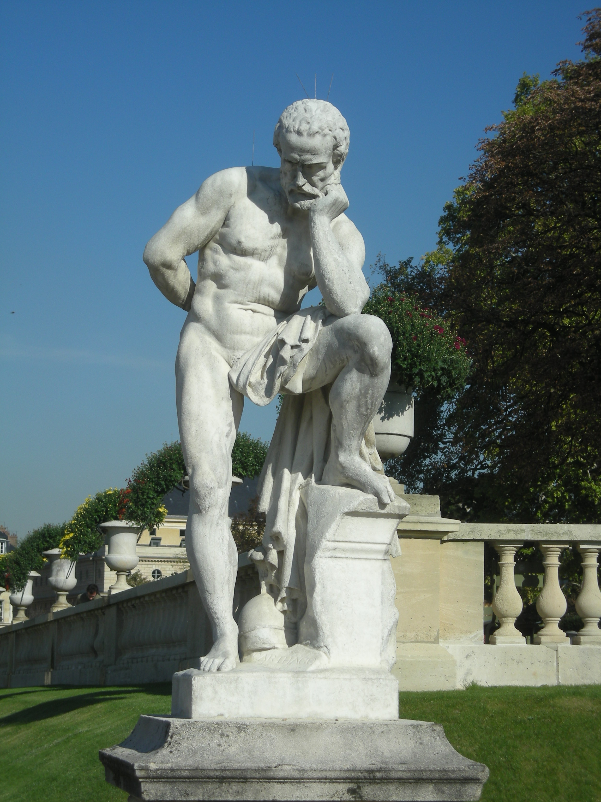 Statue in the Jardin du Luxembourg, Paris, France.